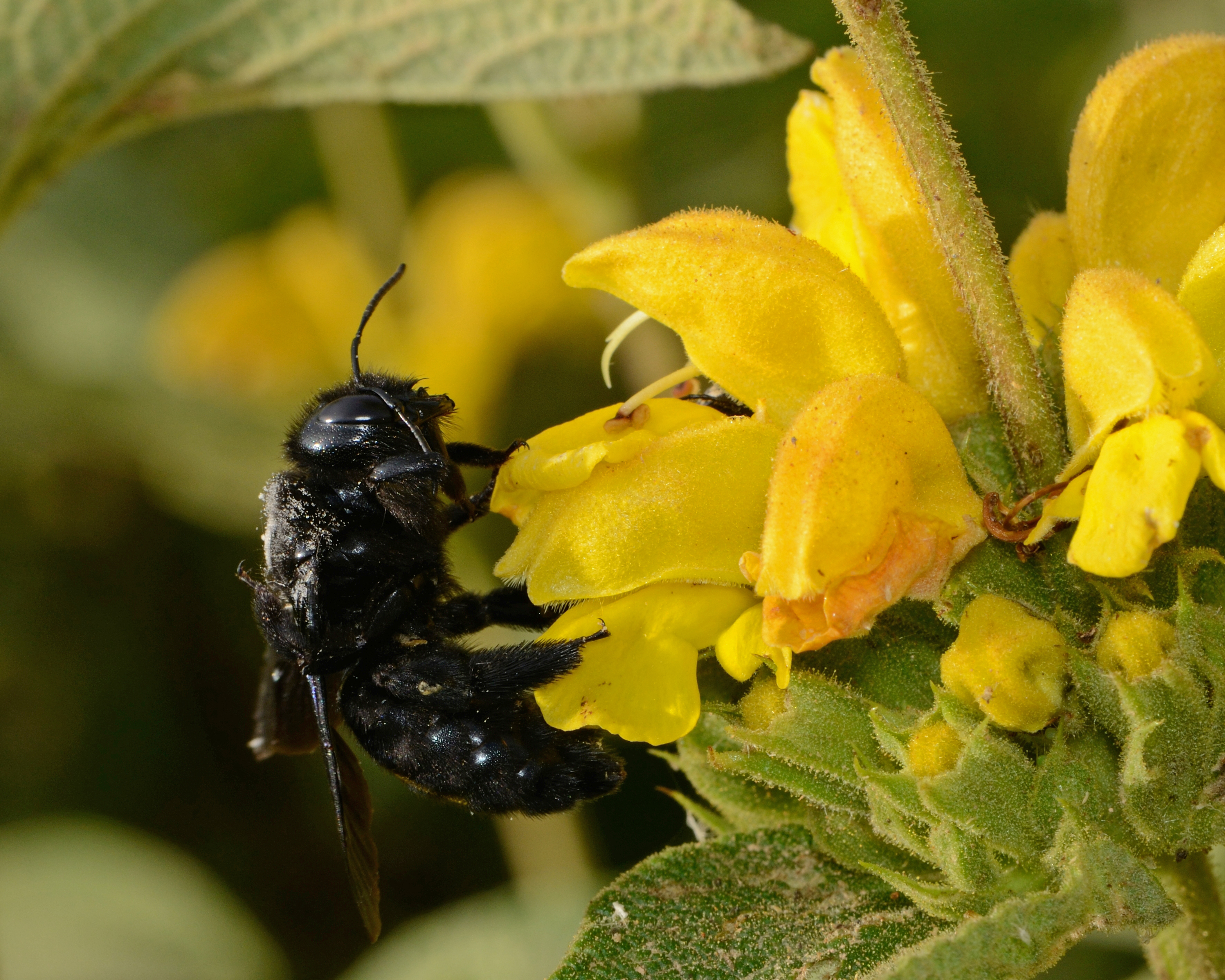 Xylocopa violacea, female foraging on Phlomis viscosa, Mount Carmel, Israel, May 10, 2012.